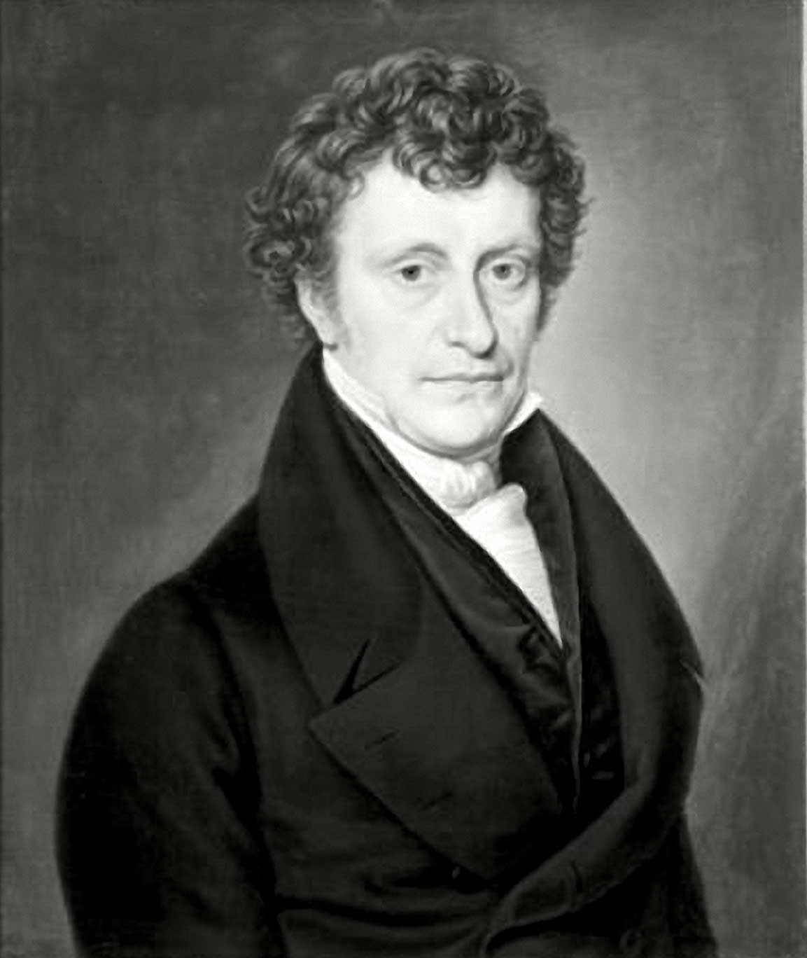 Bernardus Franciscus Suerman (1783-1862) Dutch physician